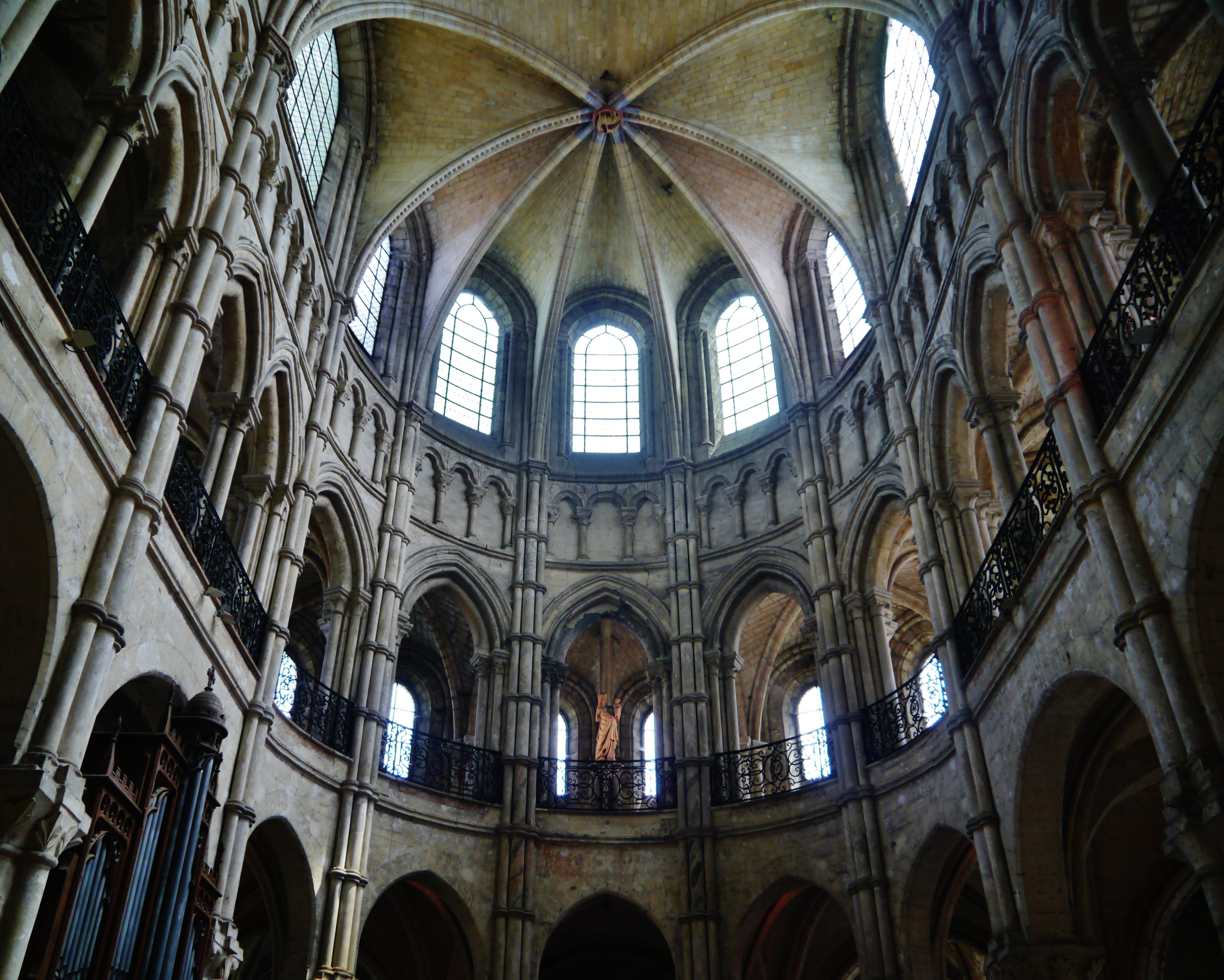 Choir of the former Cathedral of Our Lady, Noyon, Department of Oise, Region of Upper France (former Picardy), France